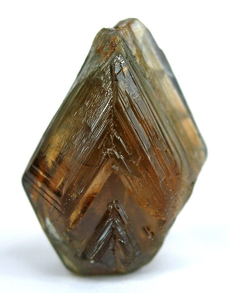 Chrysoberyl Locality: Balangoda, Ratnapura District, Sabaragamuwa Province, Sri Lanka (Locality at ) Size: 2.0 x 1.9 x 1.5 cm. A superb, gemmy and lustrous, honey-brown, V-twinned chrysoberyl crystal from the famed Ratnapura area of Sri Lanka. This complete all-around and undamaged beauty has textbook crystal form. A couple of the edge faces are frosted/contacted, but there is no damage, per se and the classic form is certainly not diminished.